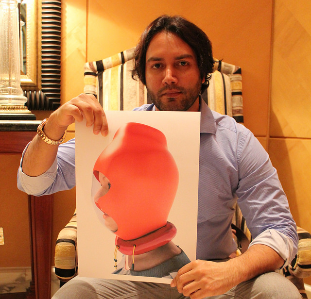 Nofel displaying oxygen mask for vehicles submerged in water.